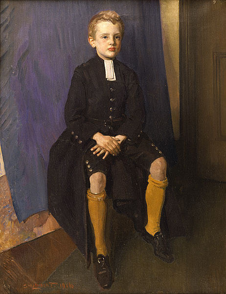 Constant Lambert as a Blue-coat boy